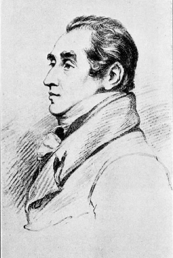 Charles Hatchett (1765-1847), an English chemist